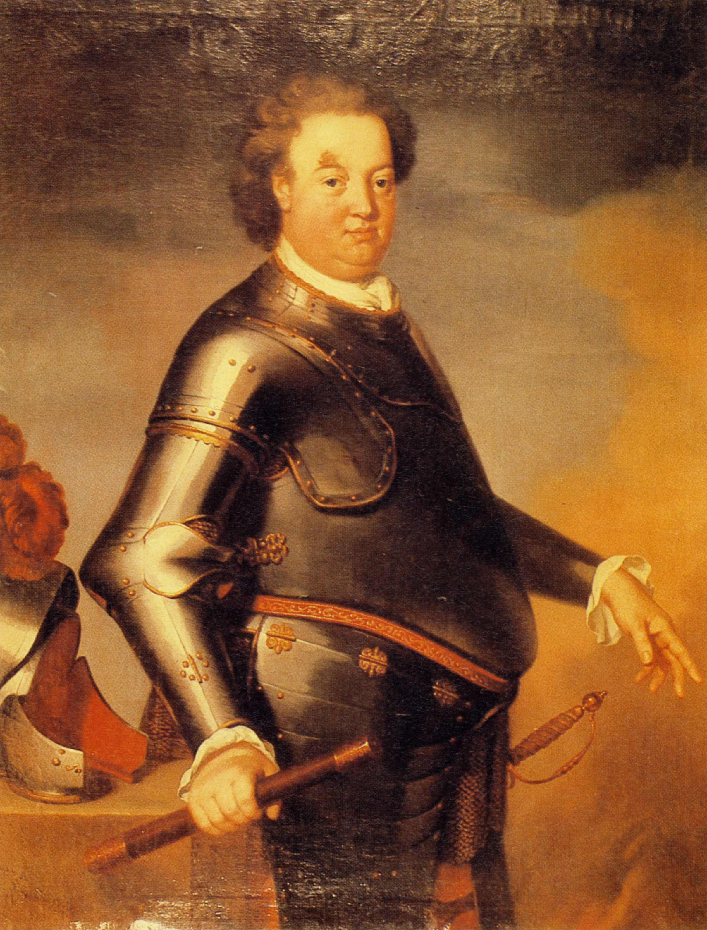 Portrait of Frederick Adolphus, Count of Lippe-Detmold (1667-1718)